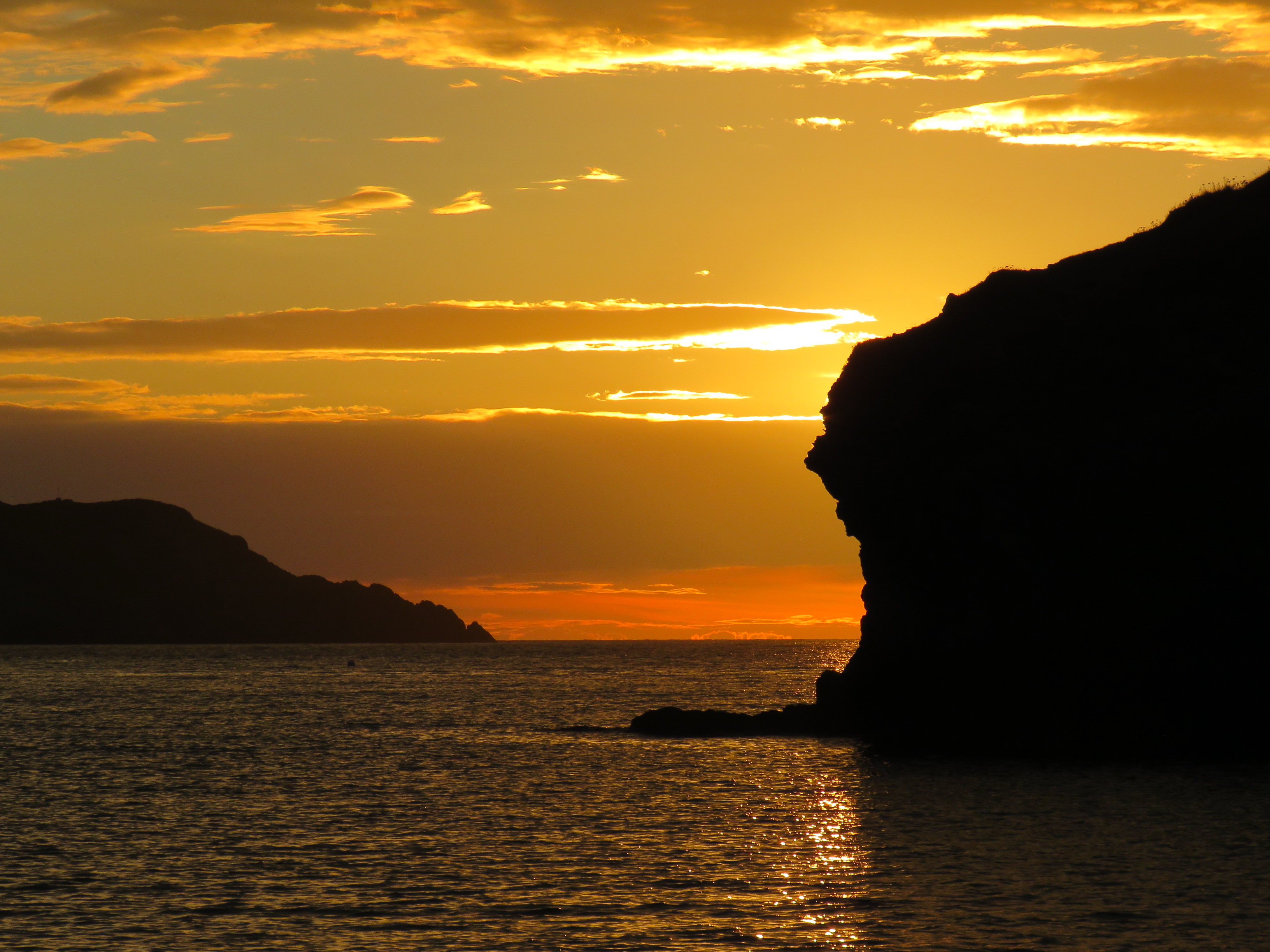 sunset, Cemaes Bay, Anglesey, Wales